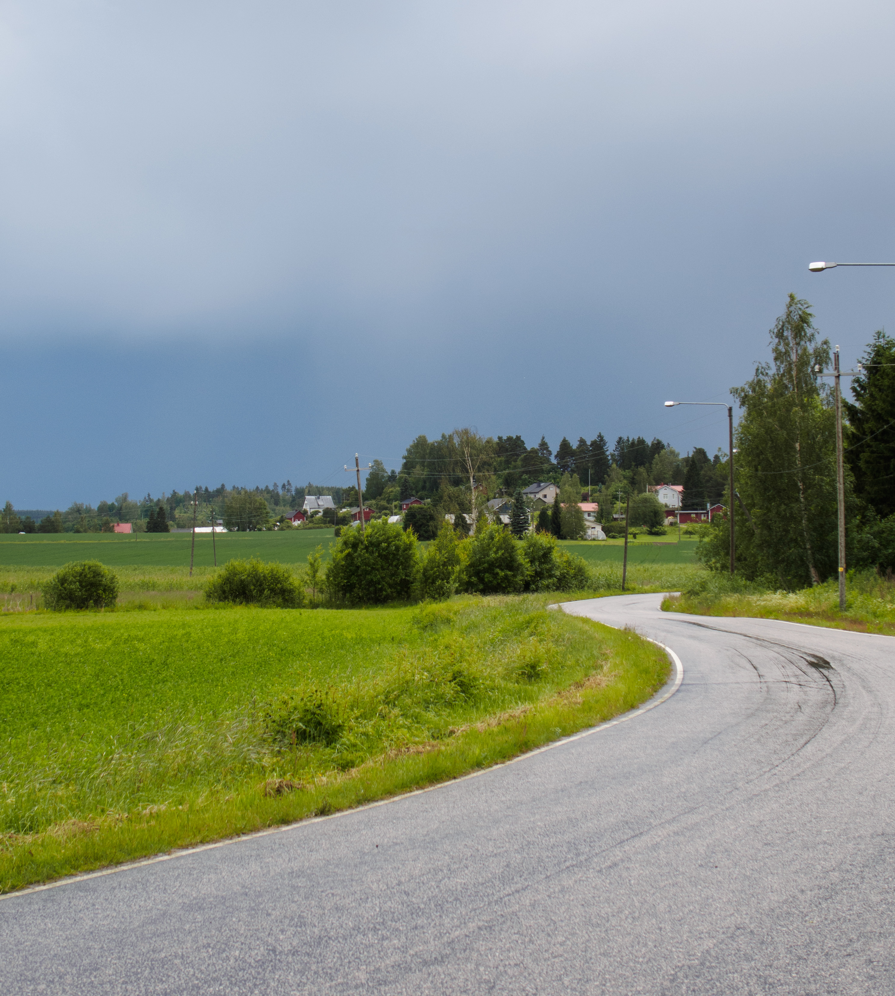 Kaninkolantie approaches Vartsala from the north in Salo, Finland. June 2014.